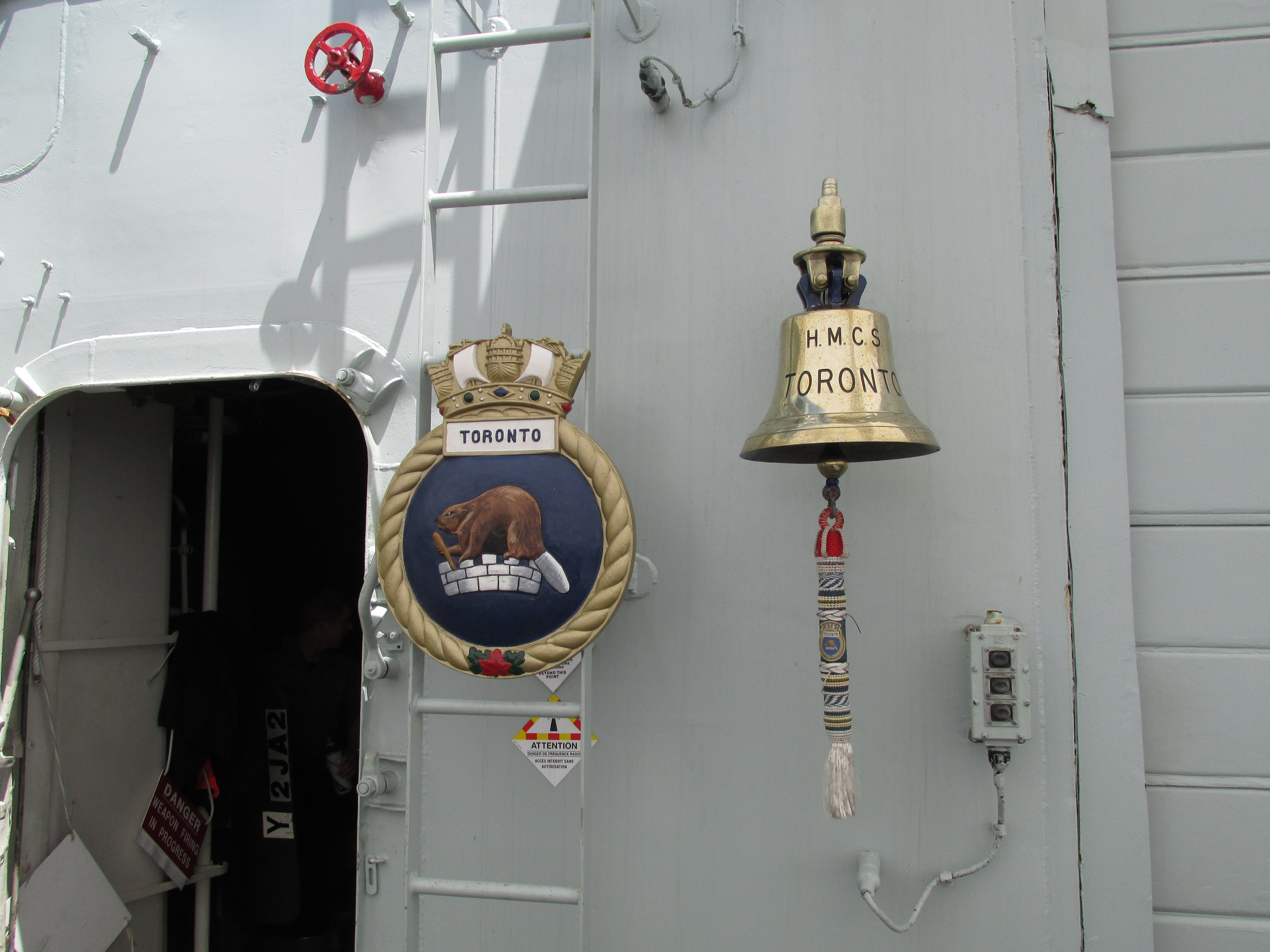 Aboard the HMCS Toronto (FFH 333), moored aside Queens Quay, Toronto, Ontario, Canada. Bell.